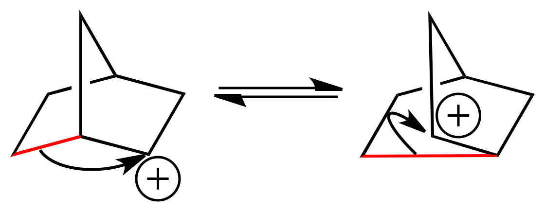 Shows the rapid equilibrium between two asymmetric enantiomeric structures of the proposed classical 2-norbornyl cation.